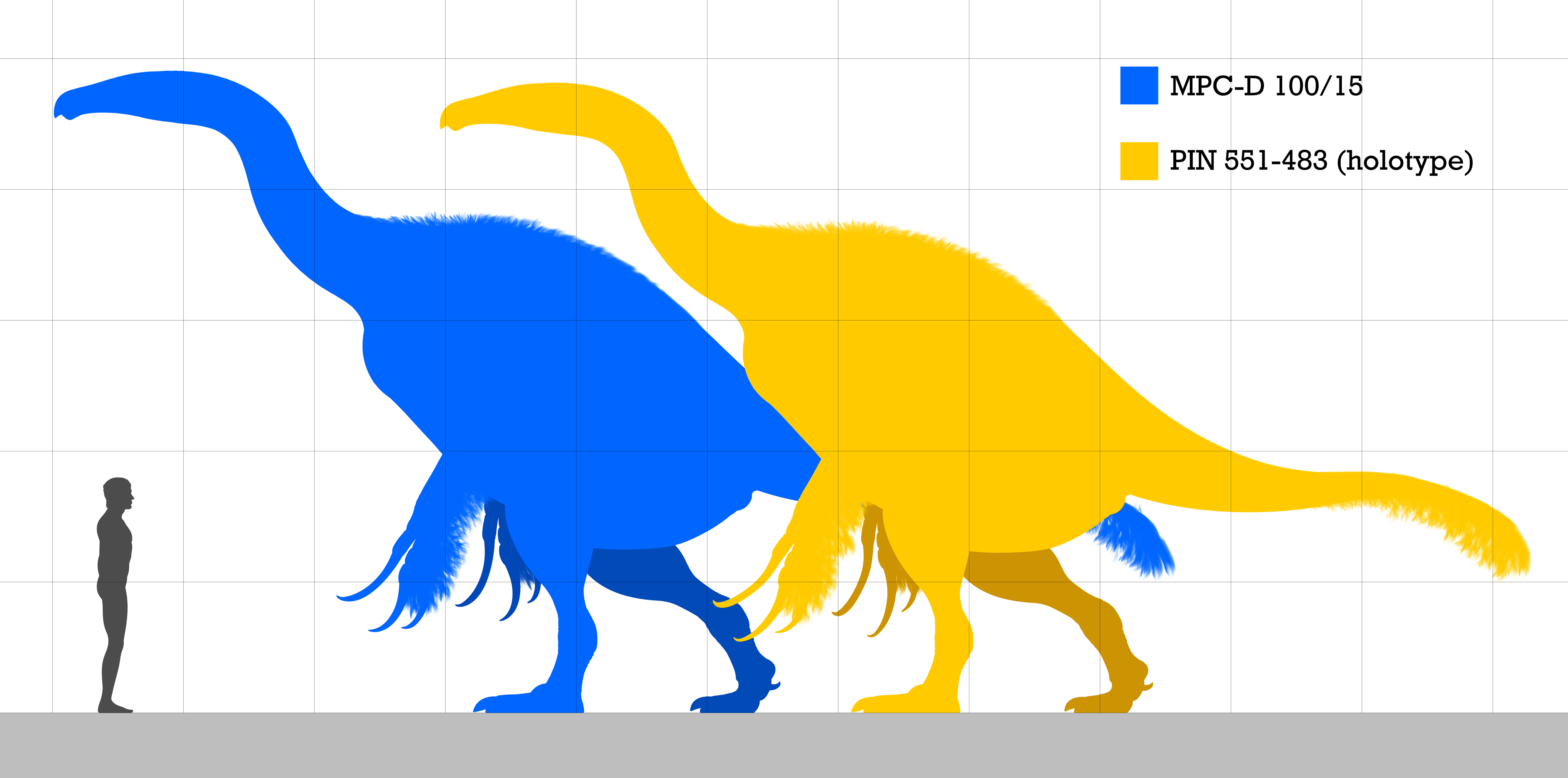 Size comparison of an individual of the gigantic therizinosaurids Therizinosaurus cheloniformis with a 1.8 m tall man. They have an estimated total length of 9.6 to 10 m (31 to 33 ft).[1][2] _______________________________________________________________________________________________________________________